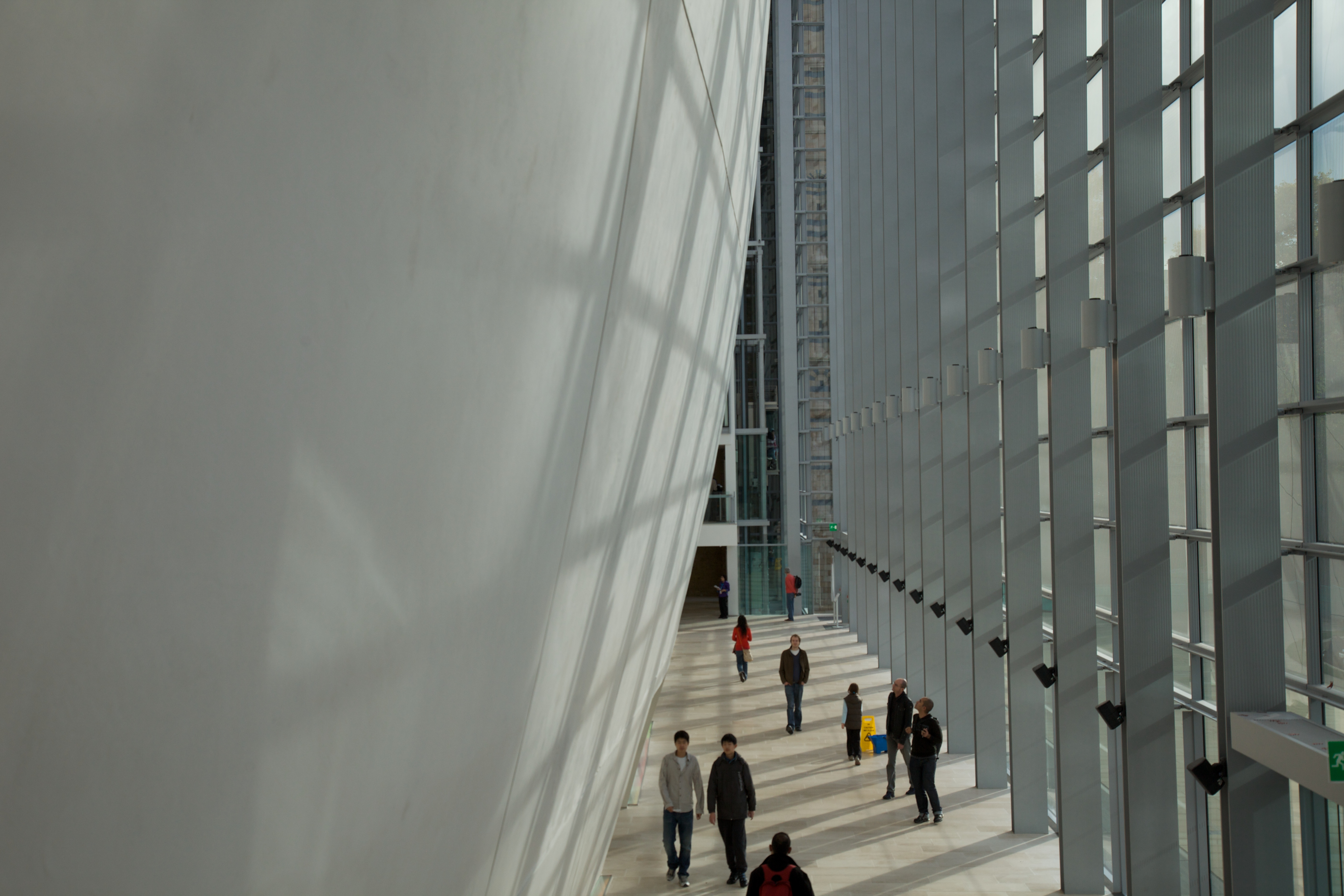 Darwin Centre II extension of Category:Natural History Museum. Designed by C. F. Møller Architects